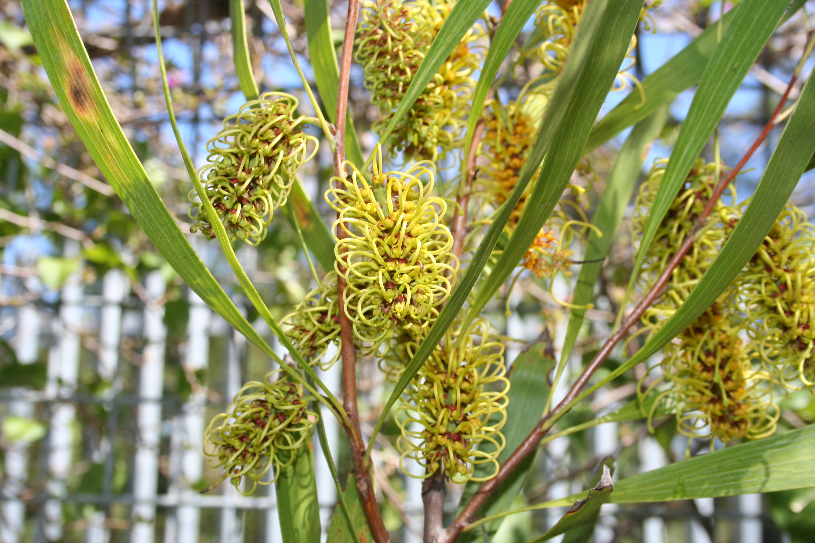 Hakea trineura in my garden in Sydney